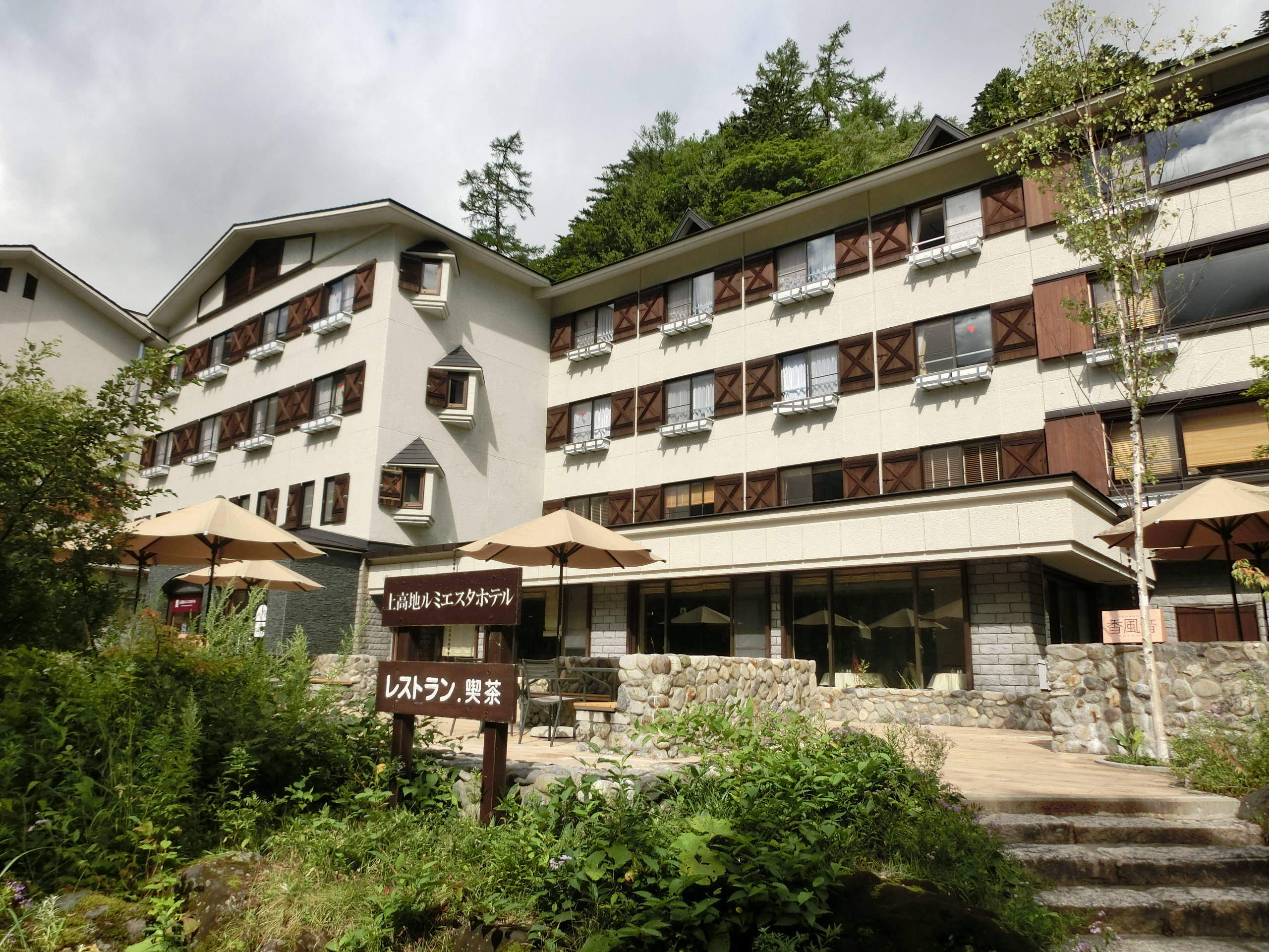 Kamikochi Lemeiesta Hotel